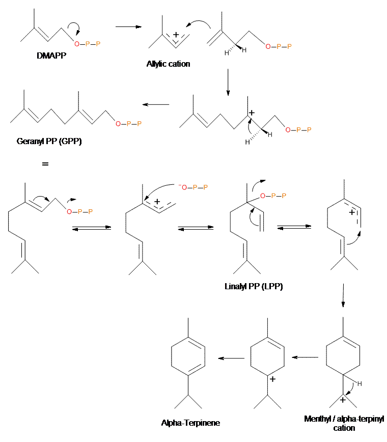 Details the biosynthesis of alpha-terpinene